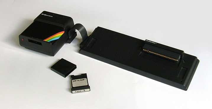 Photo of ZX Interface 1, ZX Microdrive and Microdrive cartridge